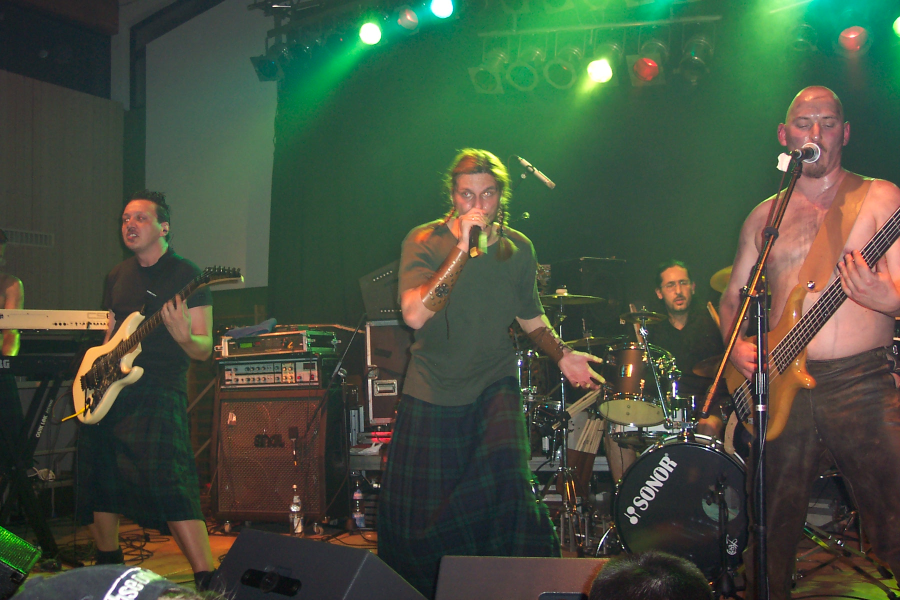 Human Fortress at the Rockhouse club in Hannover, Germany in 2004.